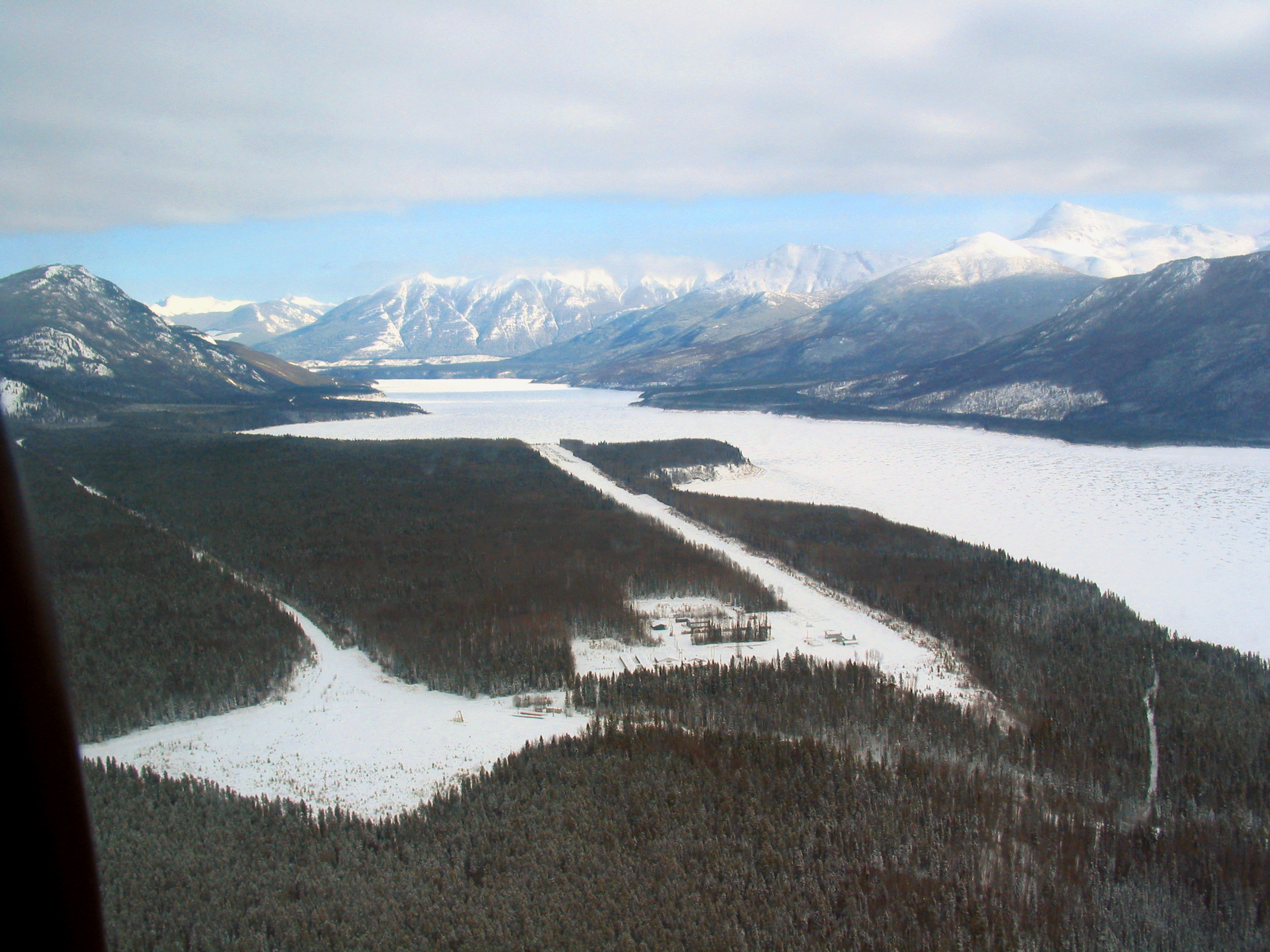 Ospika Airport, British Columbia, Canada. Photo taken from Cessna 208B Caravan